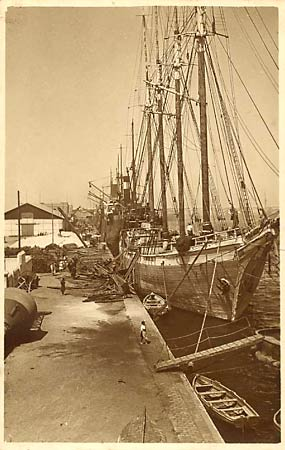 Commercial port of Sfax around 1930 Tunisia